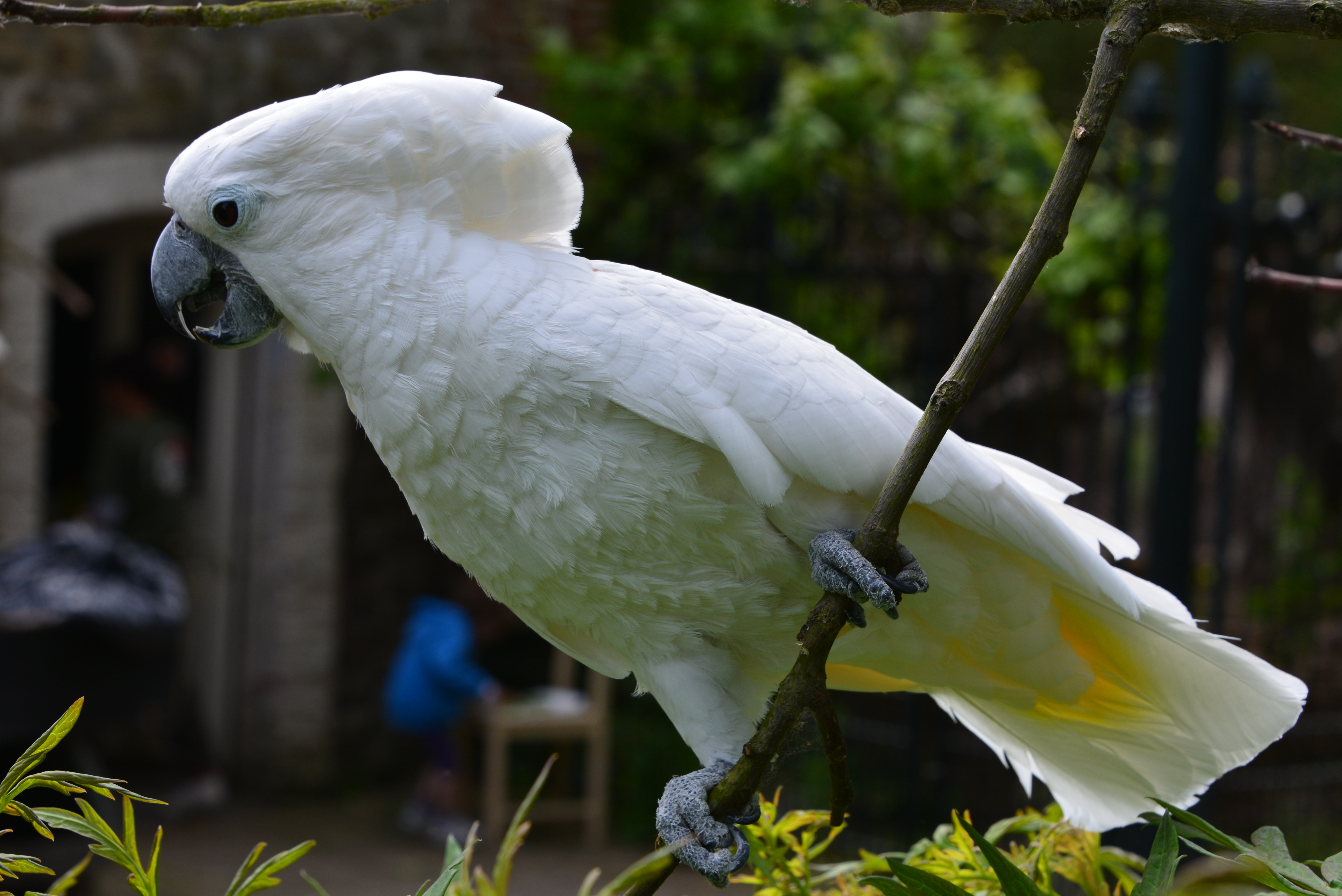 A White Cockatoo at Pairi Daize, Hainaut, Belgium.